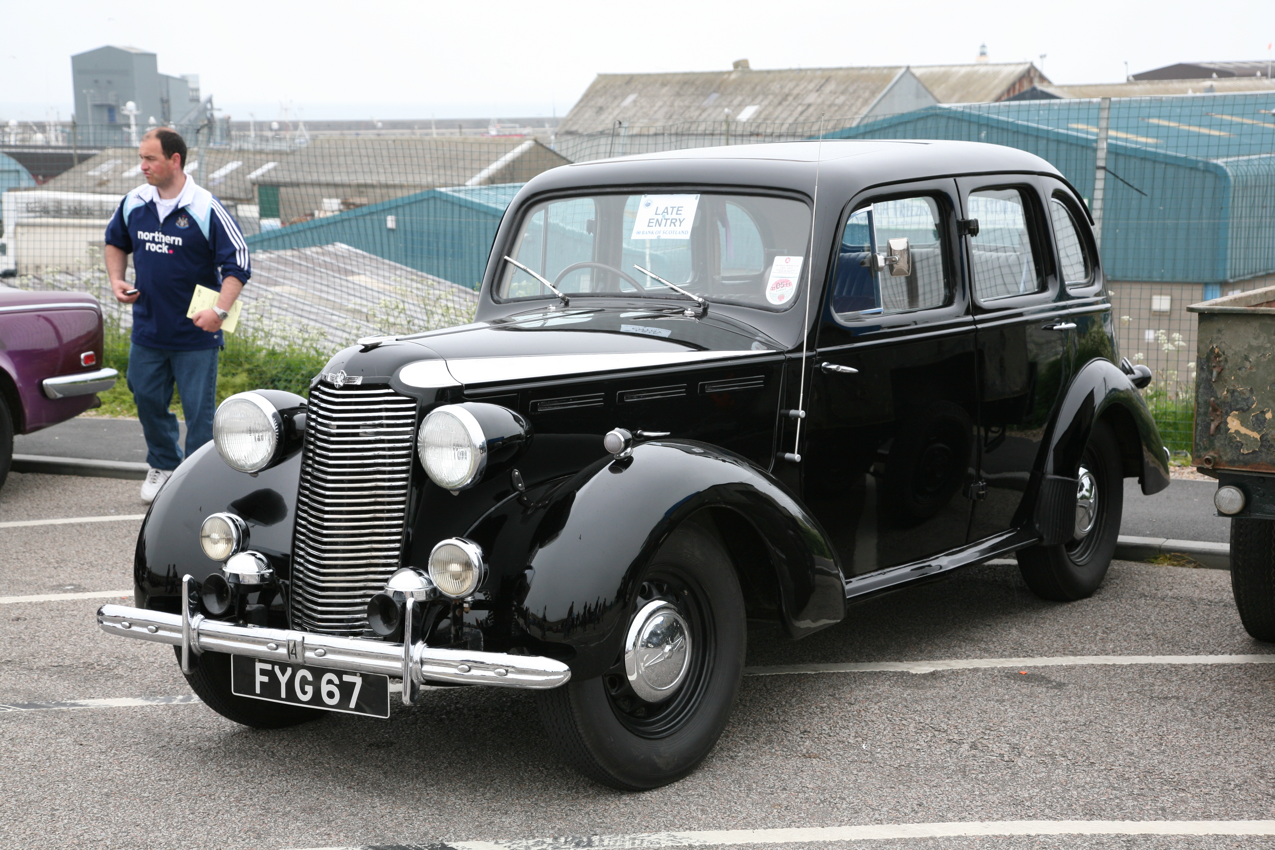 Vauxhall 14 1947(DVLA)manufactured 1947, 1781cc